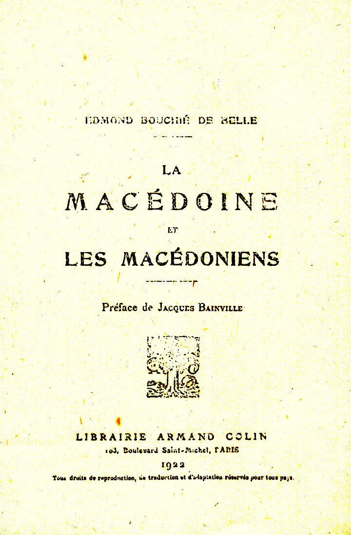 Macedonia and the Macedonians book cover